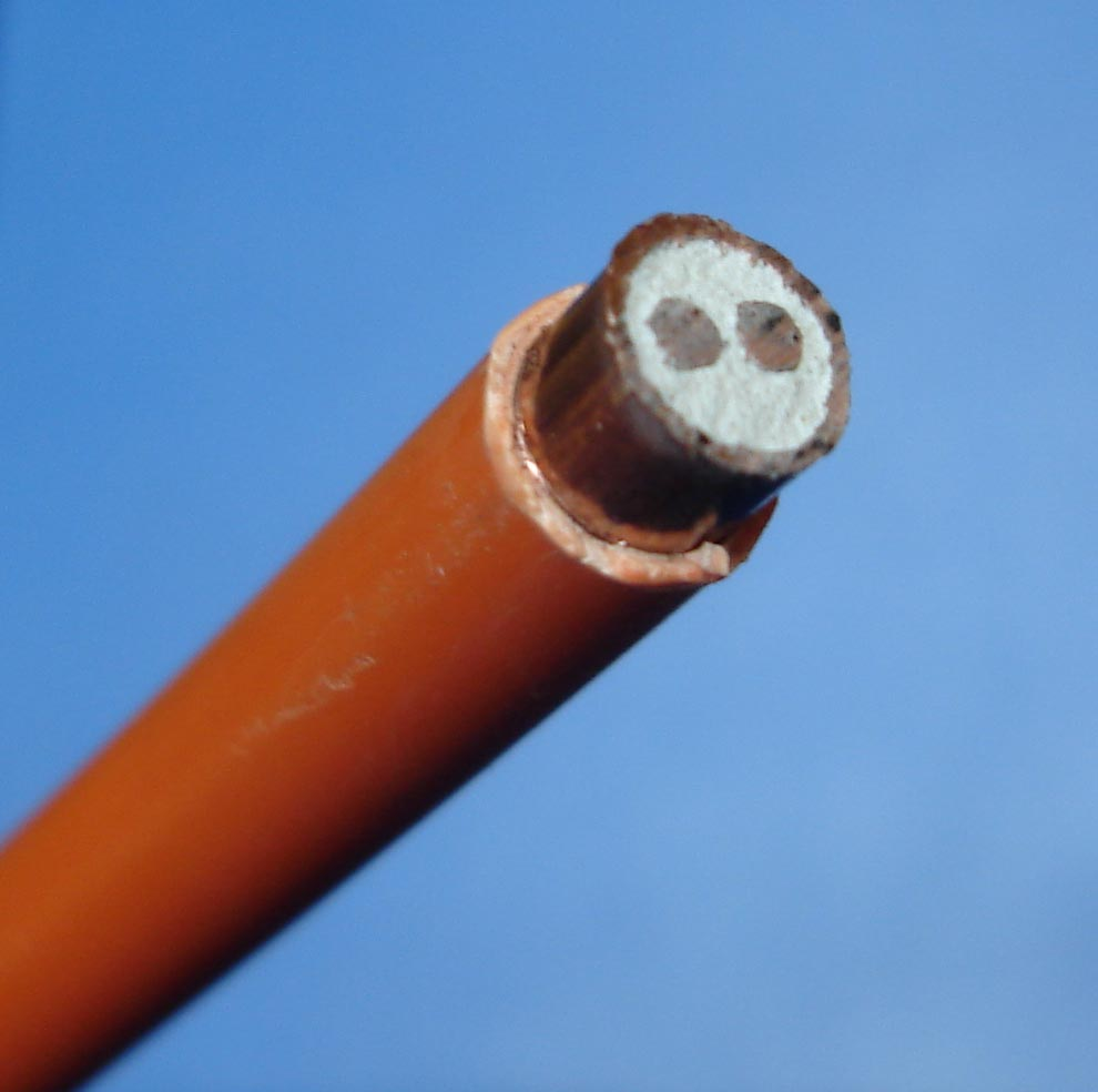 Mineral Insulated Copper Clad cable (pyro). Taken by me 18:42, 23 October 2005 (UTC)